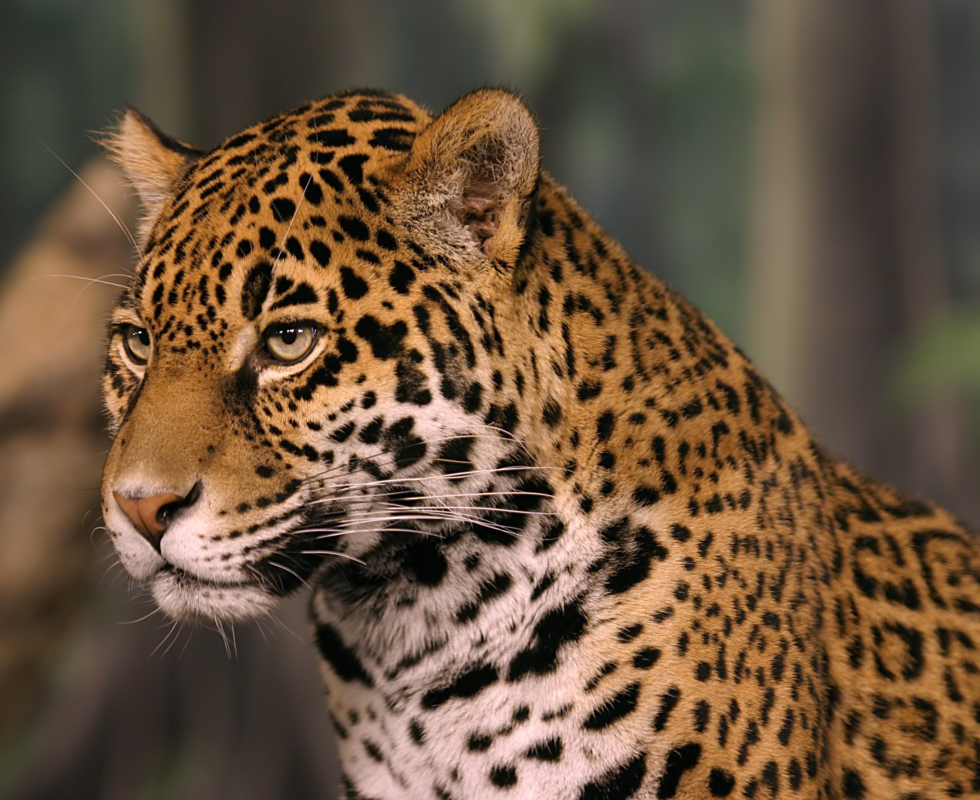 A head shot of a Jaguar (Panthera onca) at the Milwaukee County Zoological Gardens in Milwaukee, Wisconsin.